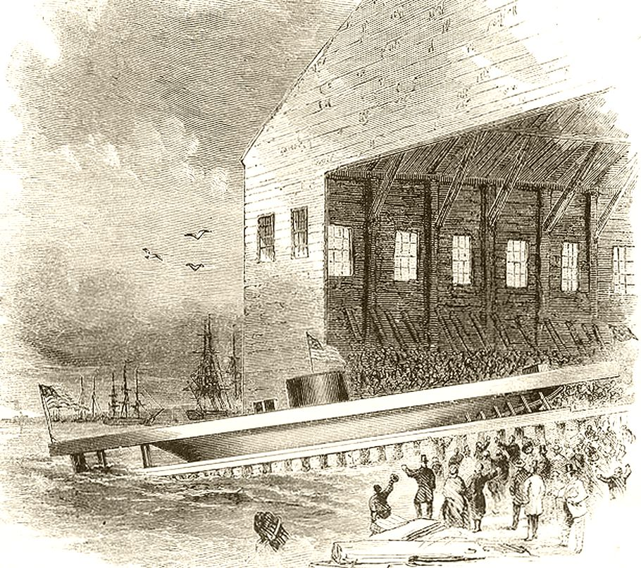 Line engraving of USS Monitor launching, Greenpoint, NY; published in Harper's Weekly